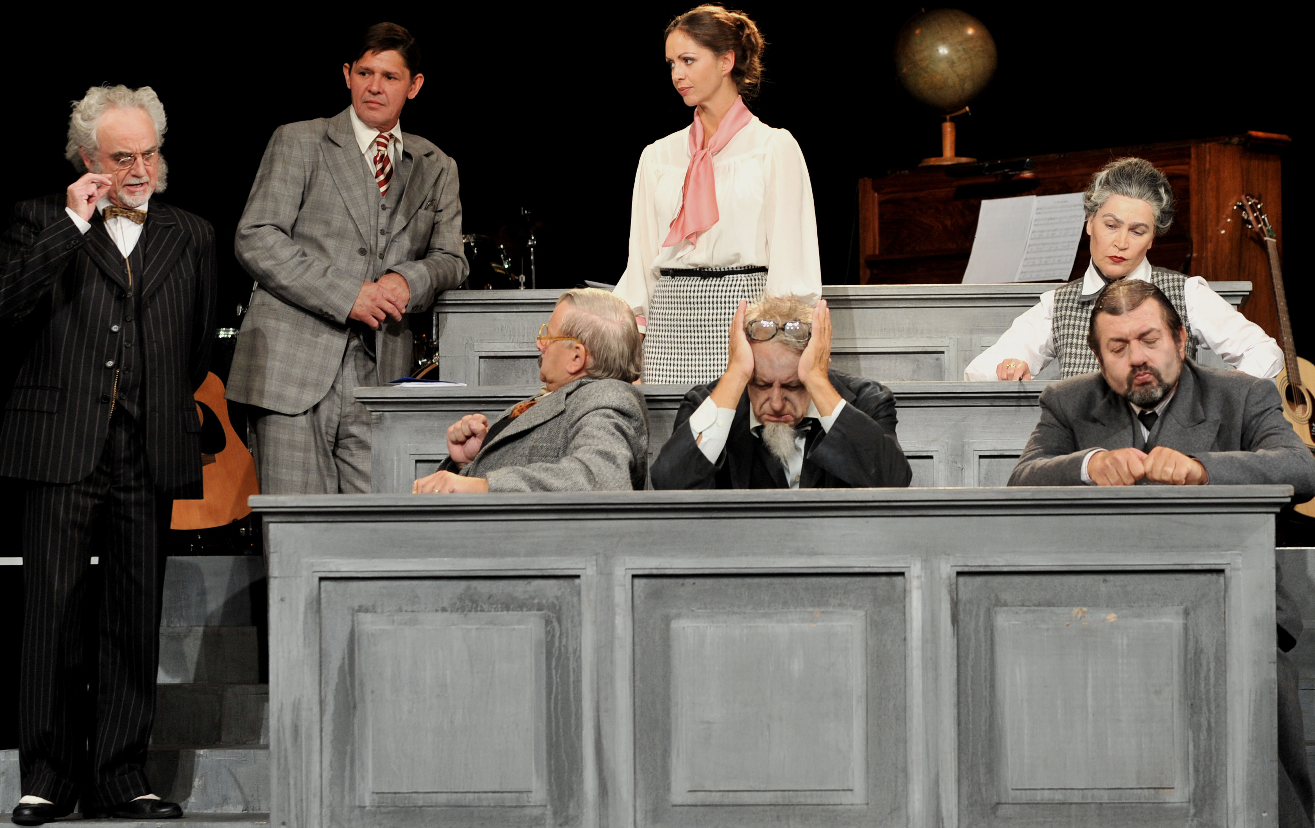 Czech theatre performance (from the left: Karel Mišurec, Martin Havelka, Jan Mazák, Ivana Vaňková, Ladislav Kolář, Irena Konvalinová, Zdeněk Junák)